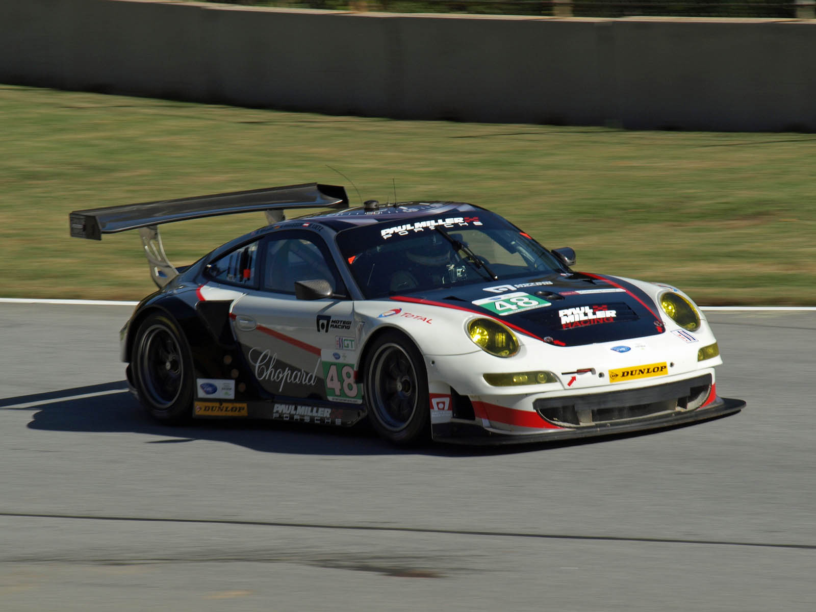 Richard Lietz in the Paul Miller Racing Porsche 997 GT3-RSR during qualifying for the 2012 Petit Le Mans